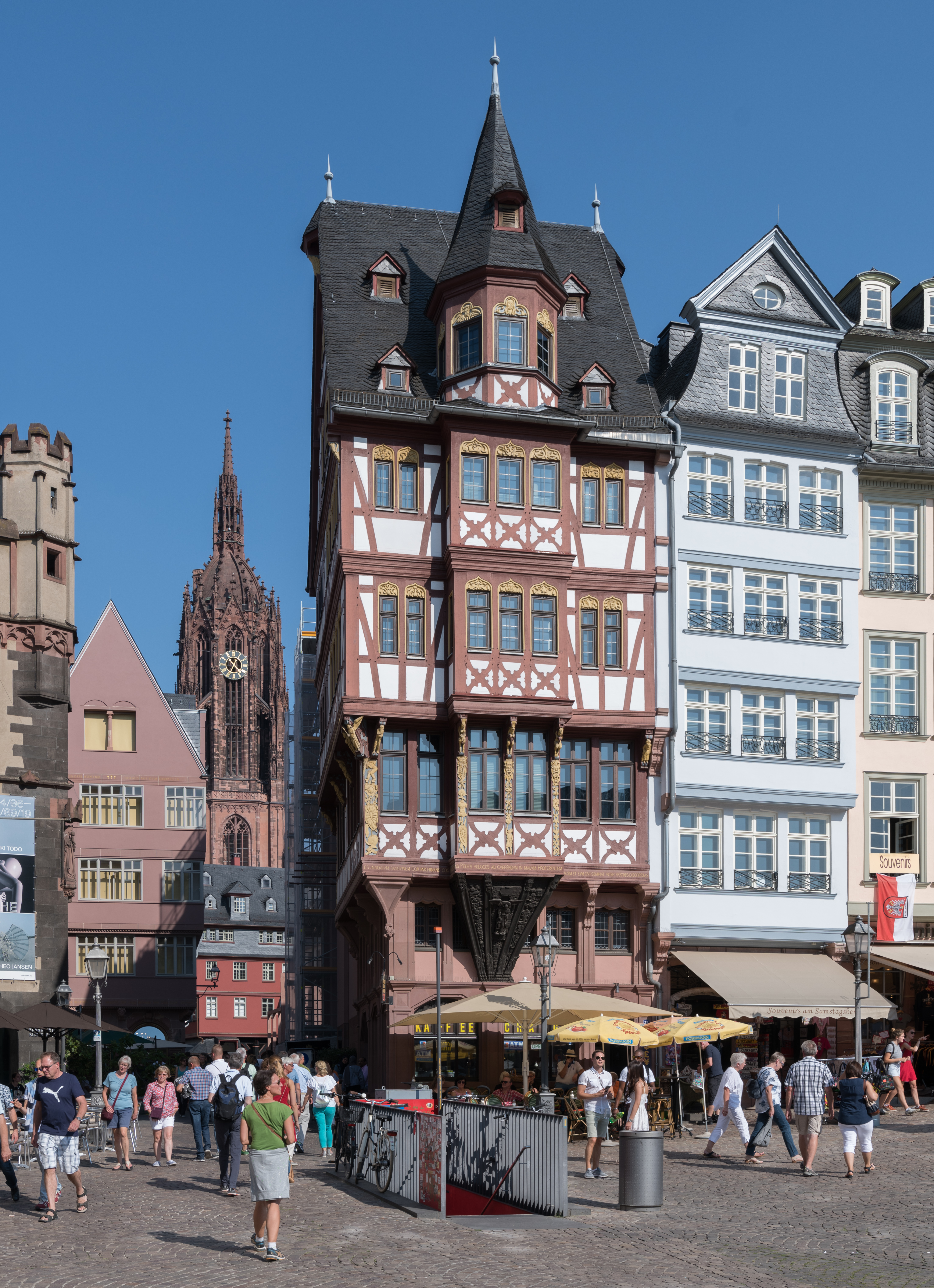 A west view of the Großer Engel building, a part of Römerberg, Frankfurt am Main